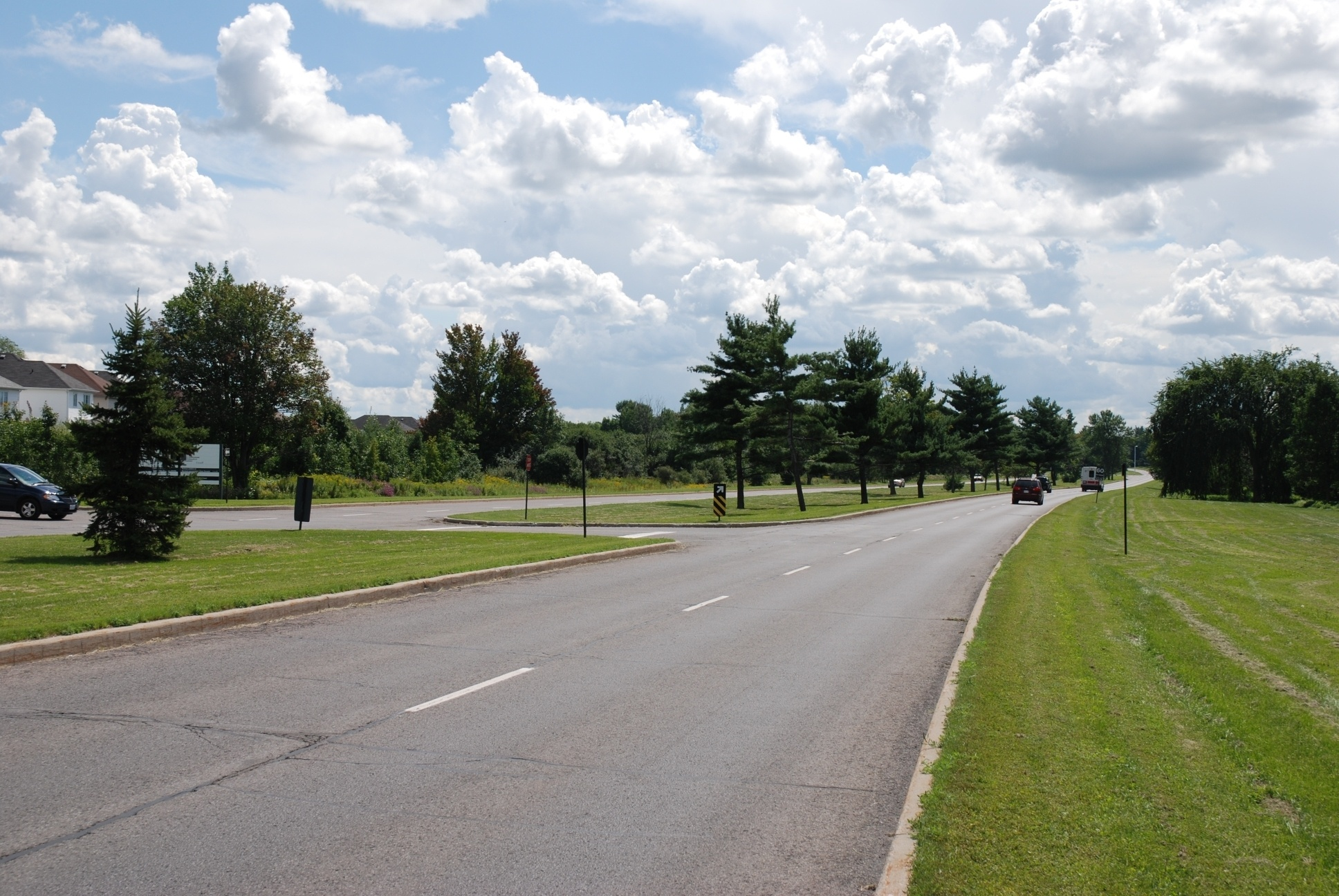 Looking southward alongside the Aviation Parkway, Ottawa, Ontario, Canada, from south of the Montreal Road intersection